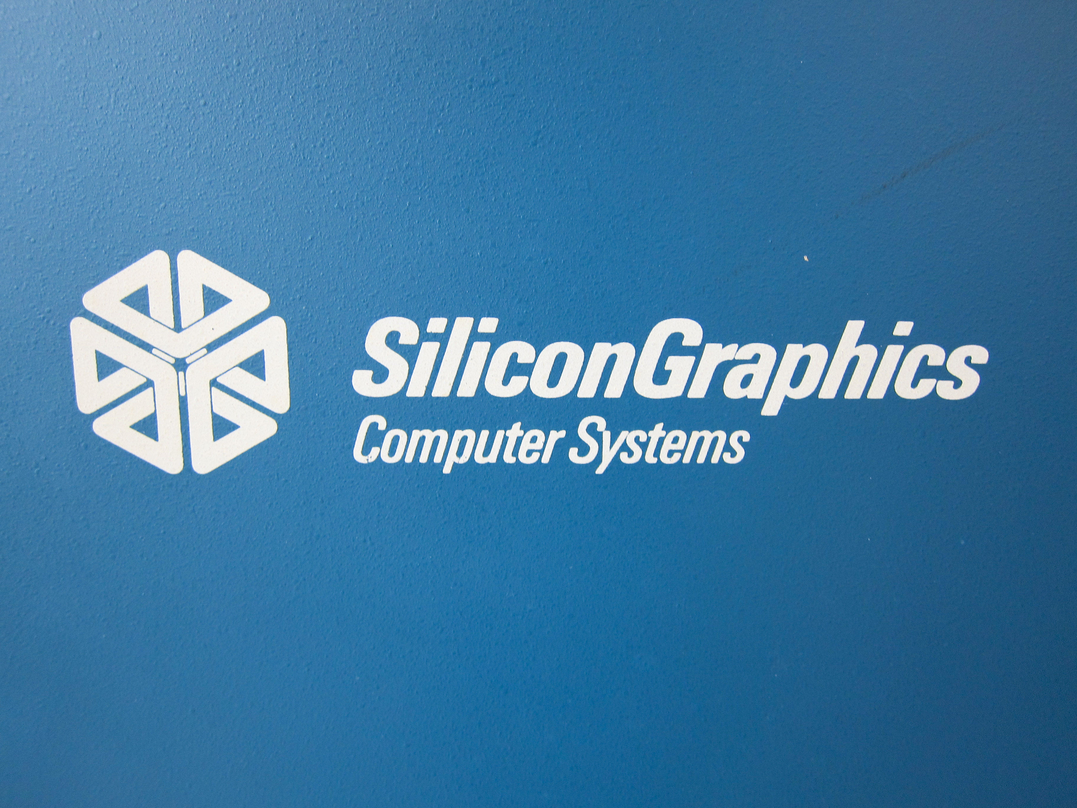 Silicon Graphics Computer Systems (SGCS) logo on SGI Power Challenger GR